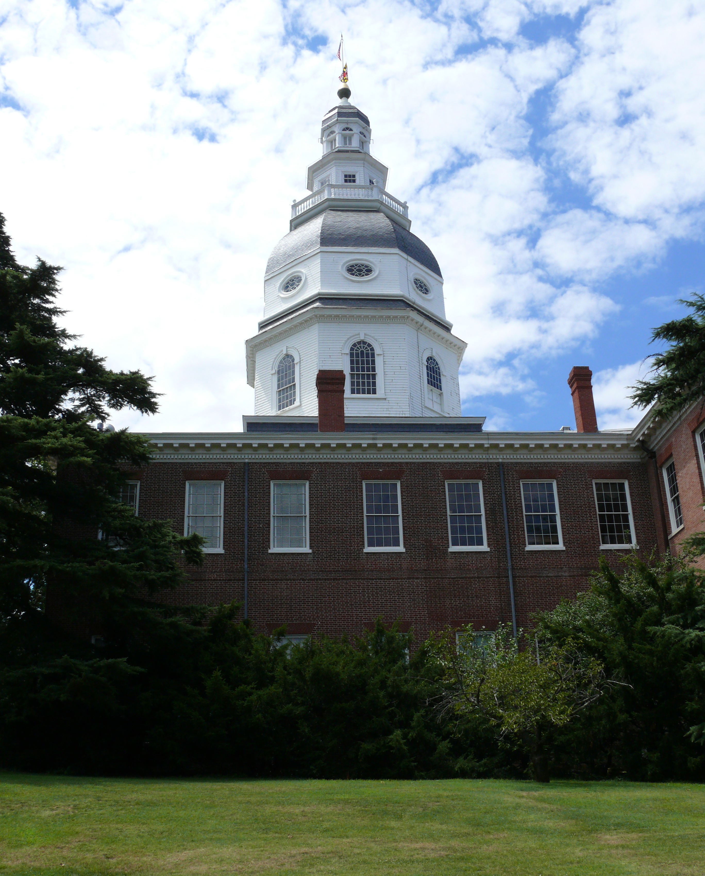 Maryland State House in Annapolis, MD.